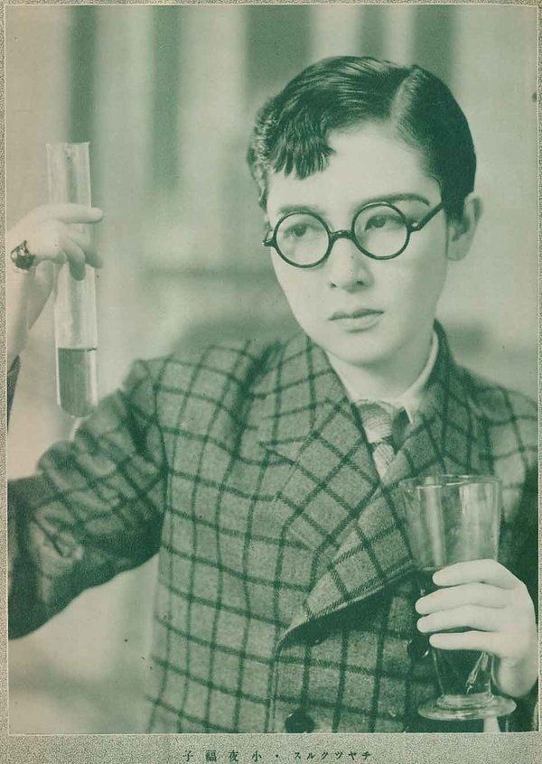 Fukuko Sayo as Chuckles in the Takarazuka revue Big Apple (Jul 1938).